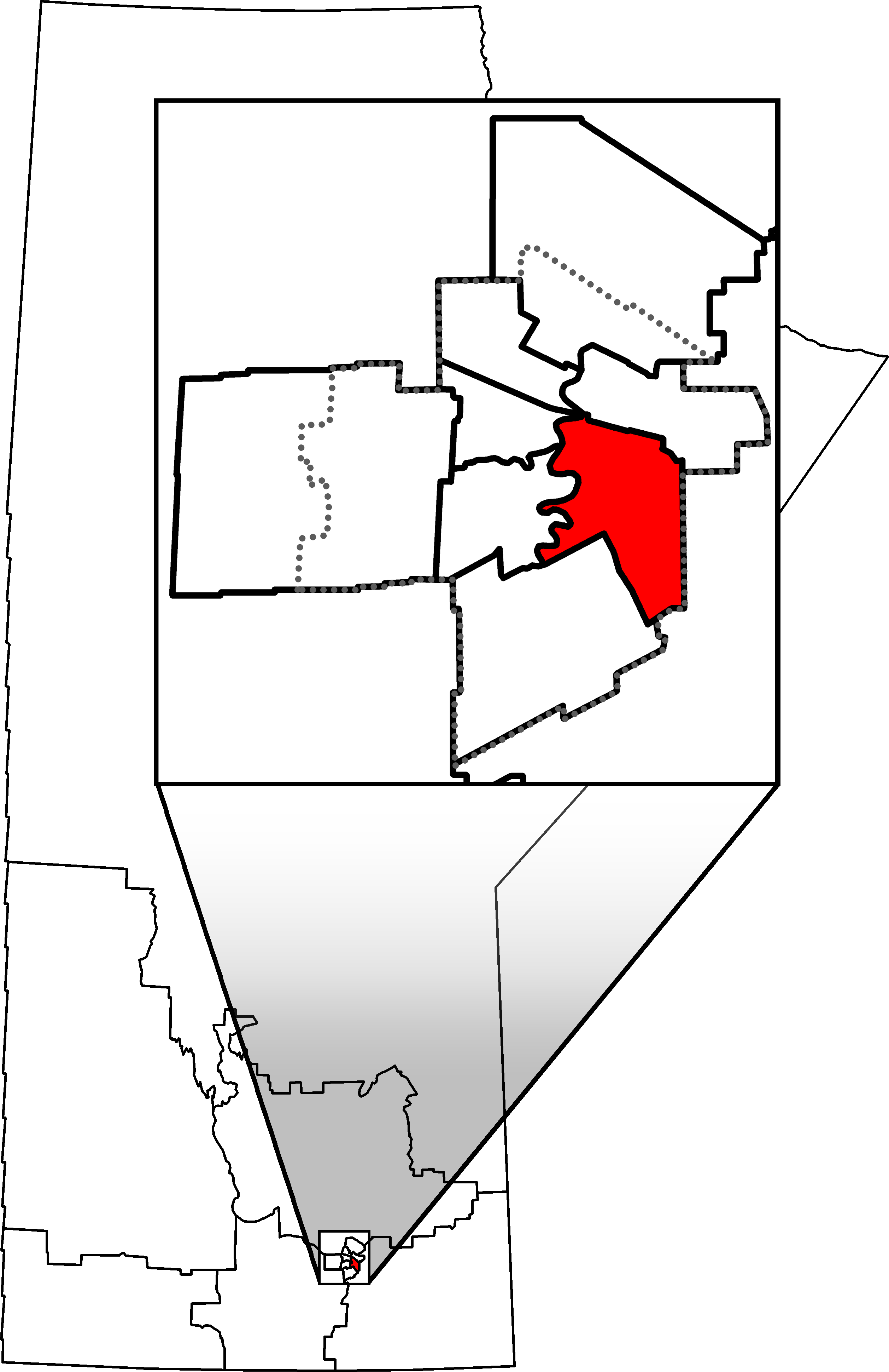 Federal Electoral District in Manitoba, Canada as of the 2013 Representation Order.